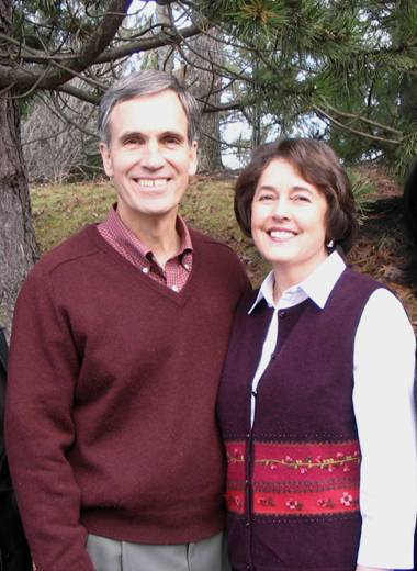 United States Congressman Tom Allen (D-Maine) and his wife, Diane Allen